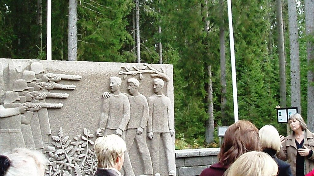 Assasination place in the forest near Falstad concentration camp in Levanger, Norway. Director of the camp museum, Tone Jørstad, far right, as guide.